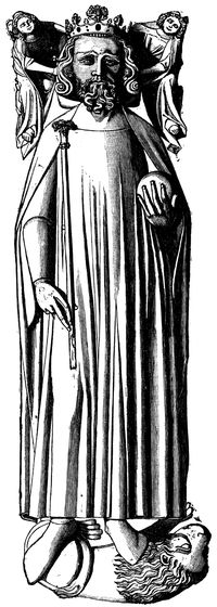 Edward II.; from his monument in Gloucester Cathedral